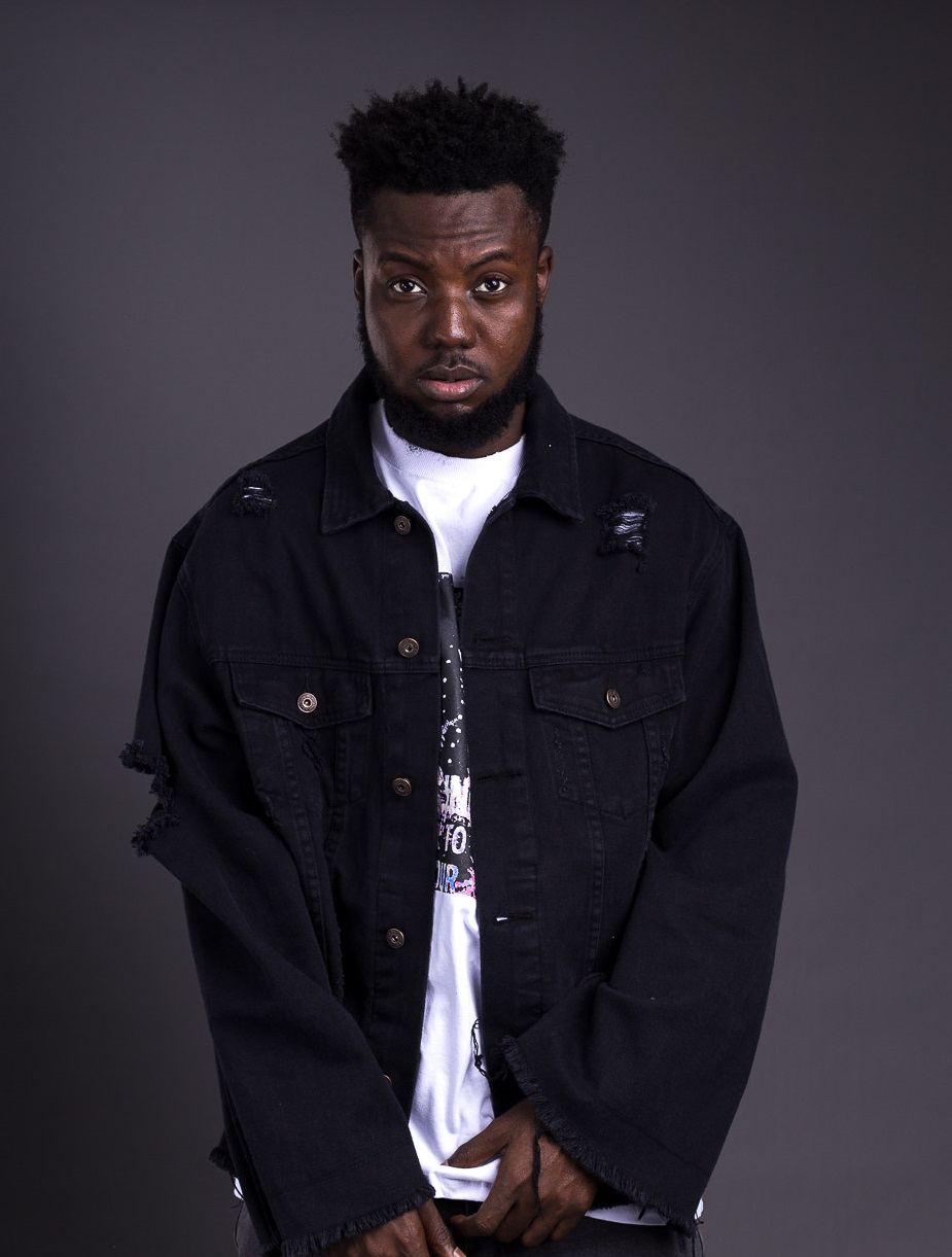 Portrait image of Kojo Manuel